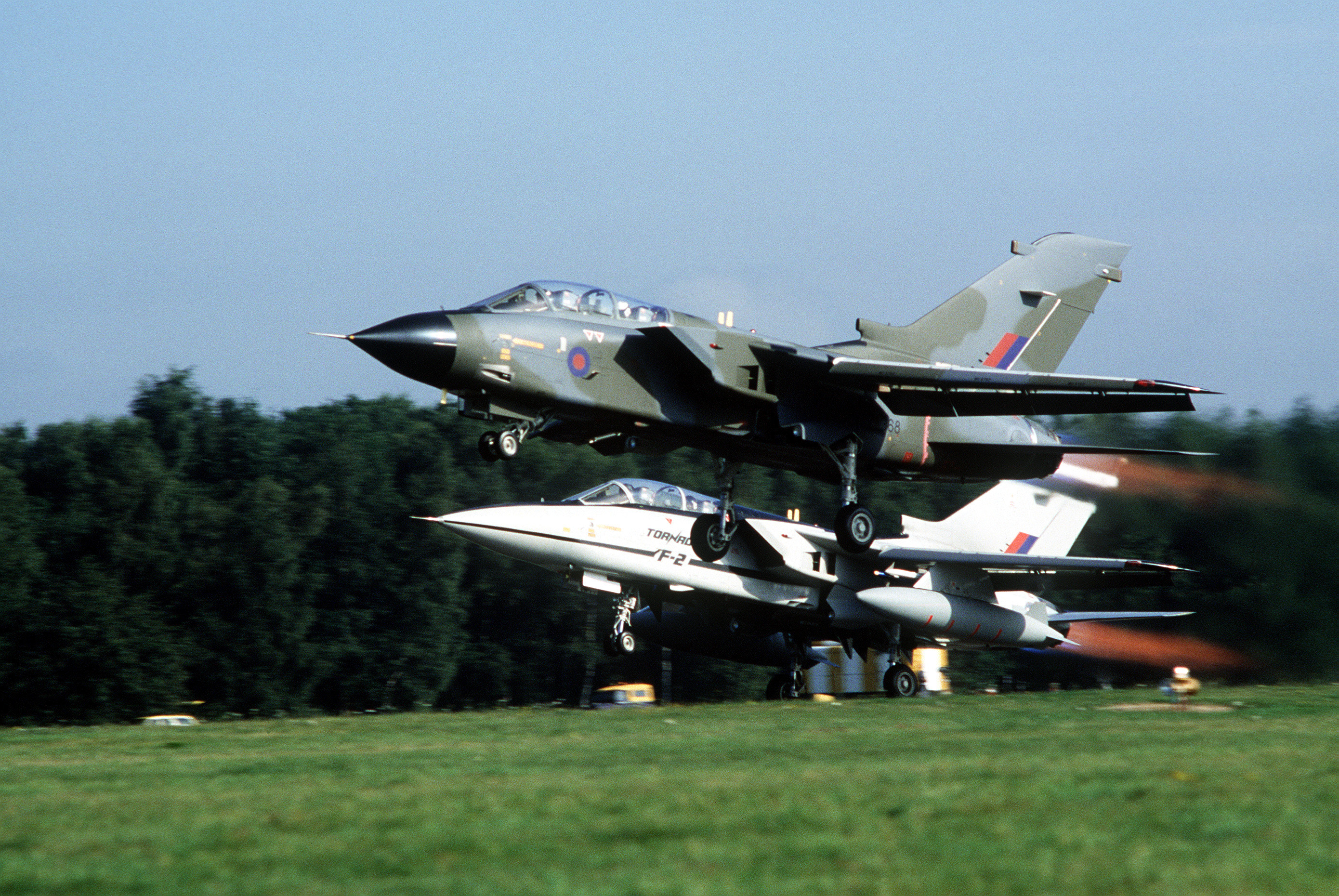 A left front view of two multinational variable-swept-winged Tornado aircraft taking off at the Farnborough Air Show.